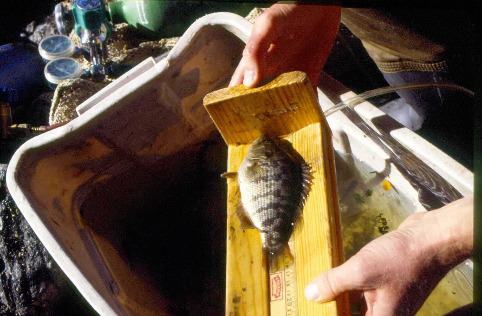 Measuring a Sacramento perch. CDFW file photo by Robert Waldron.